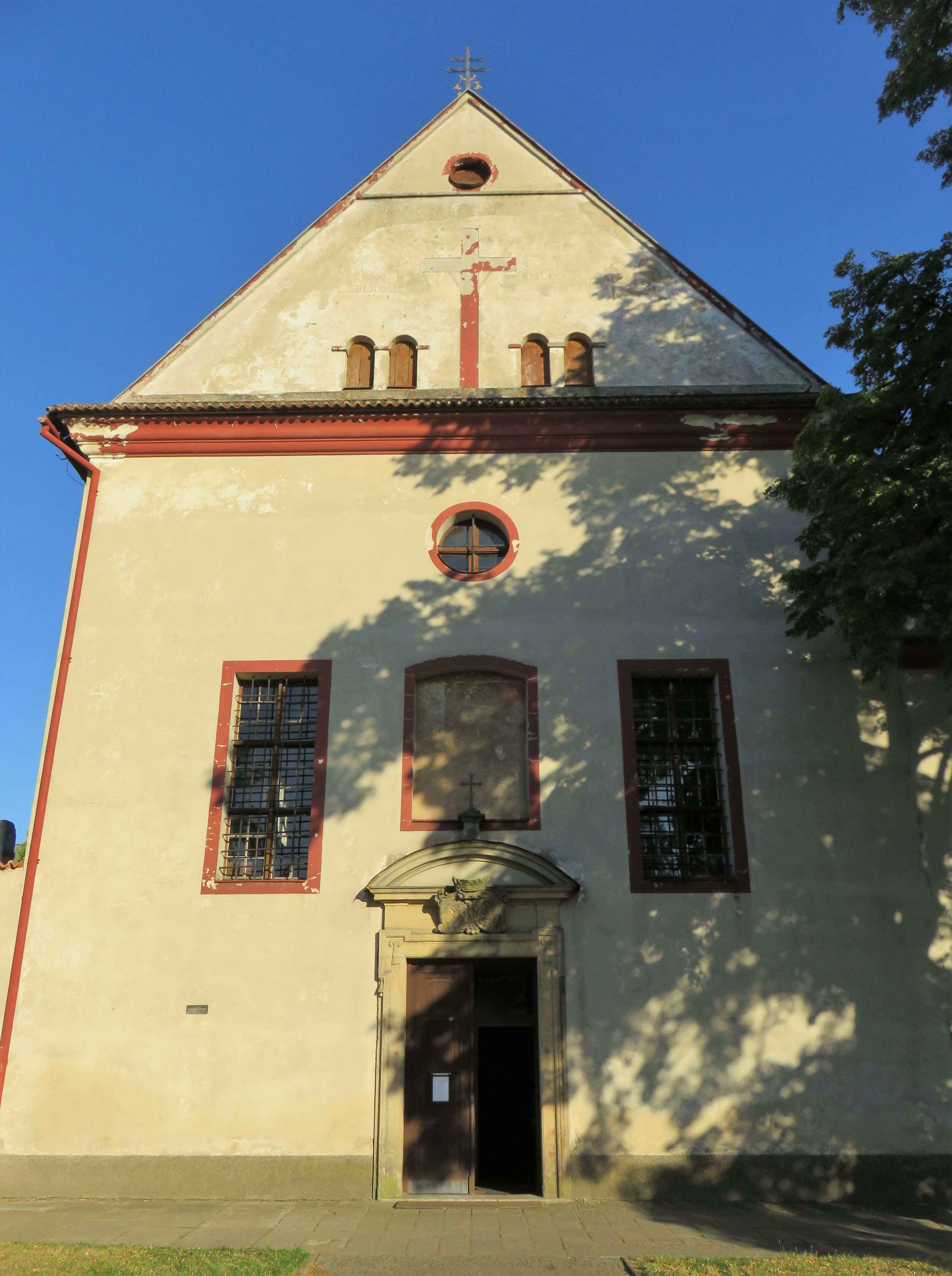 Early Baroque Capuchin church of the Nativity of Christ in Opočno